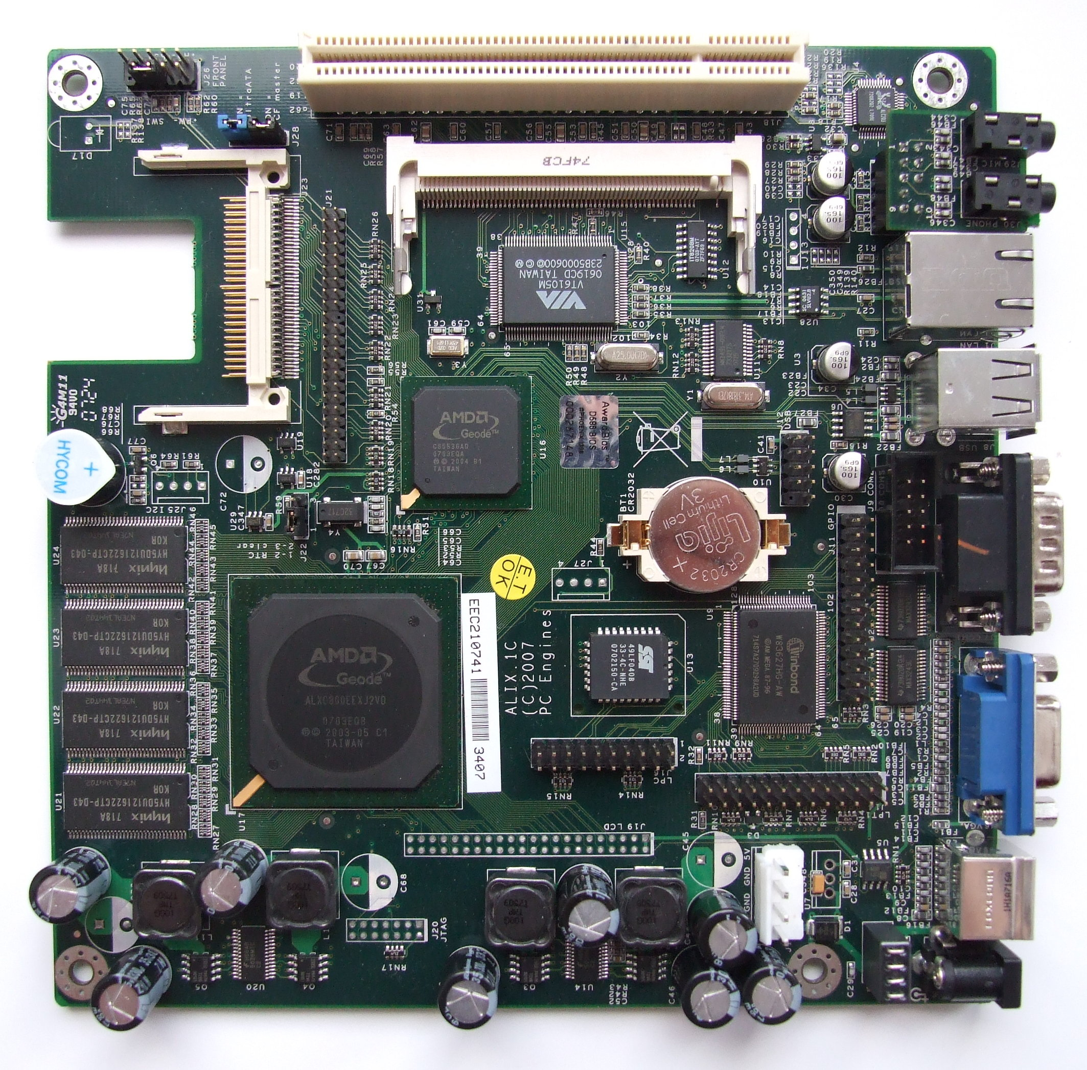 Alix.1C board with AMD Geode LX 800 (500 MHz) by PC Engines